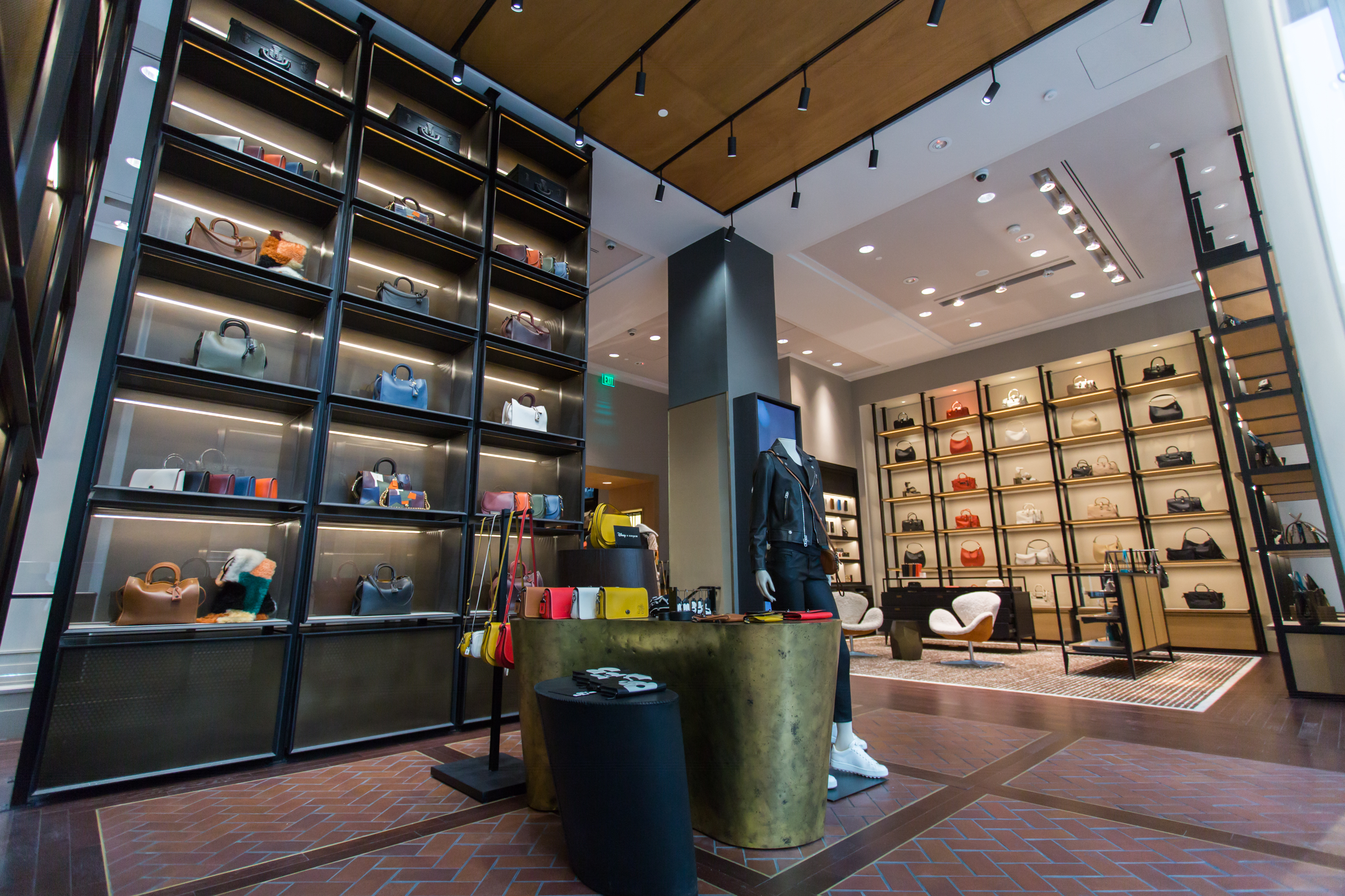 Inside of Coach store in San Francisco, CA